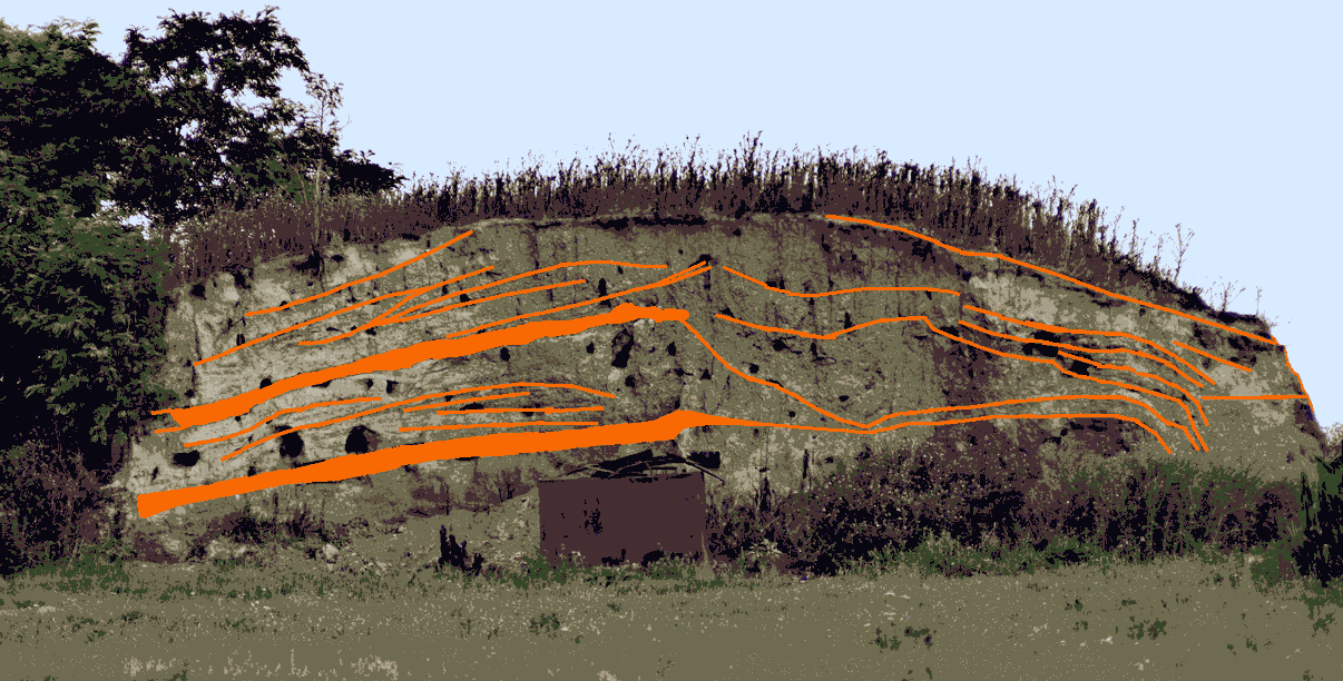 In this self-drawn schematic, the visible layers of the kurgan are reconstructed, giving clues to its structure